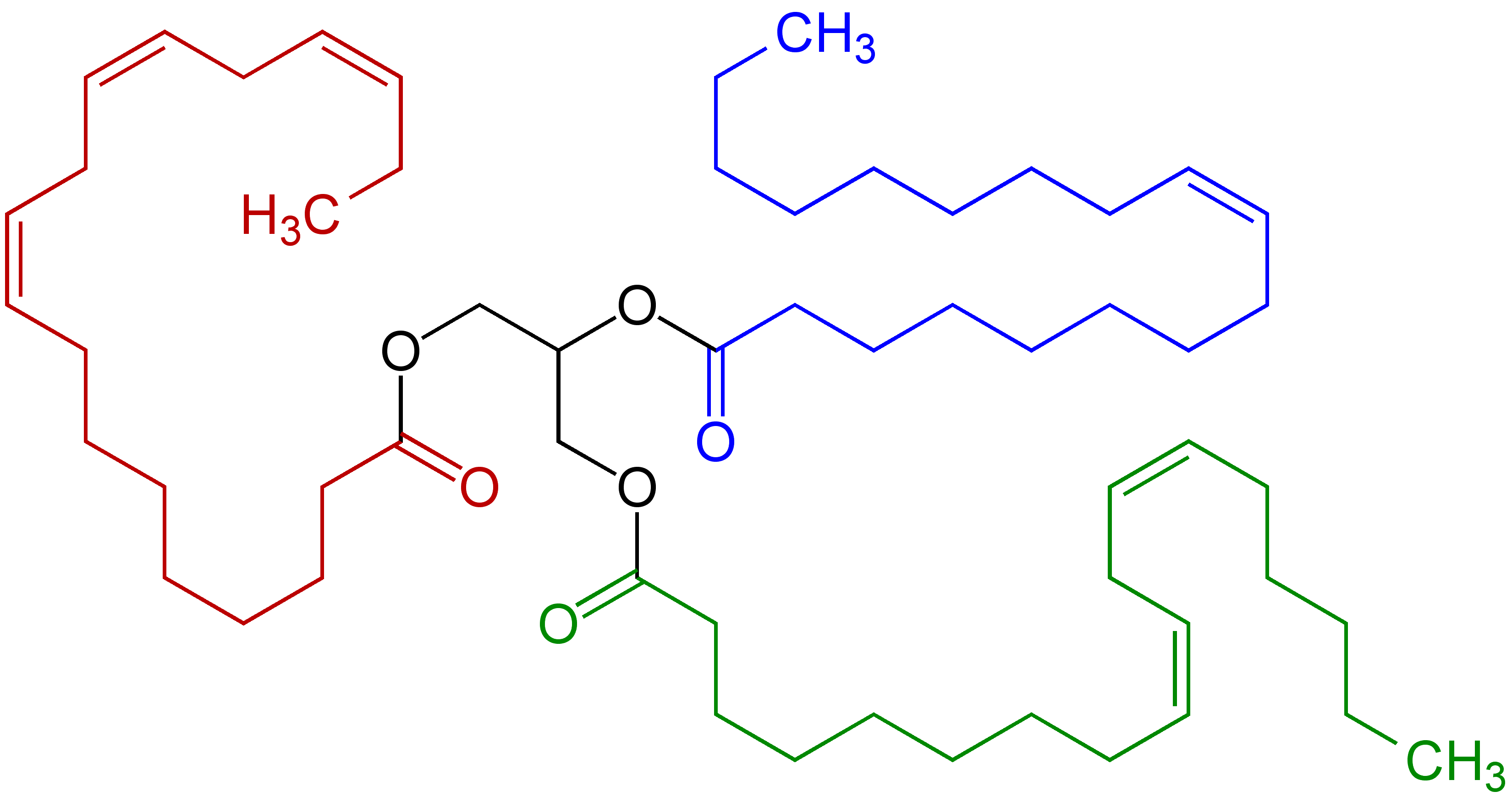 Triglyceride_unsaturated_Structural_Formulae